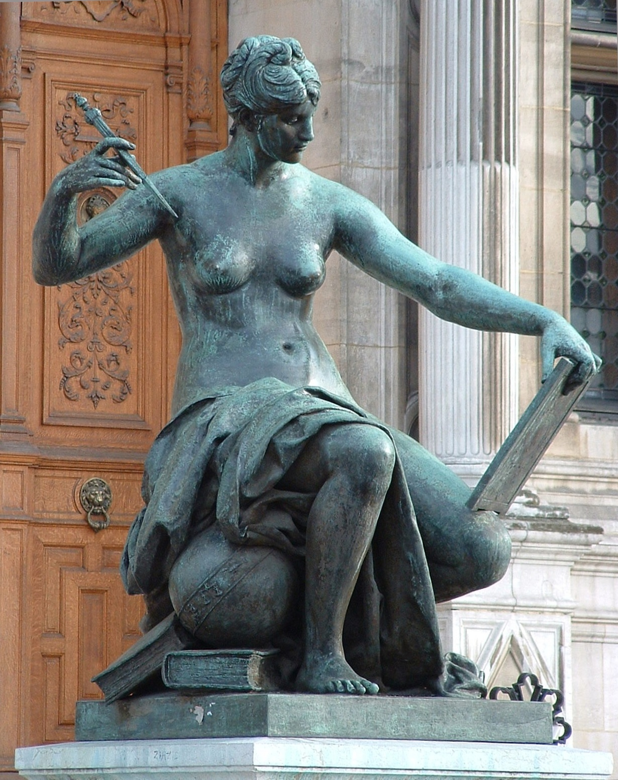 Allegory of "La Science" - Bronze statue by Jules Blanchard in front, right, of the Hôtel-de-Ville de Paris. around 1882